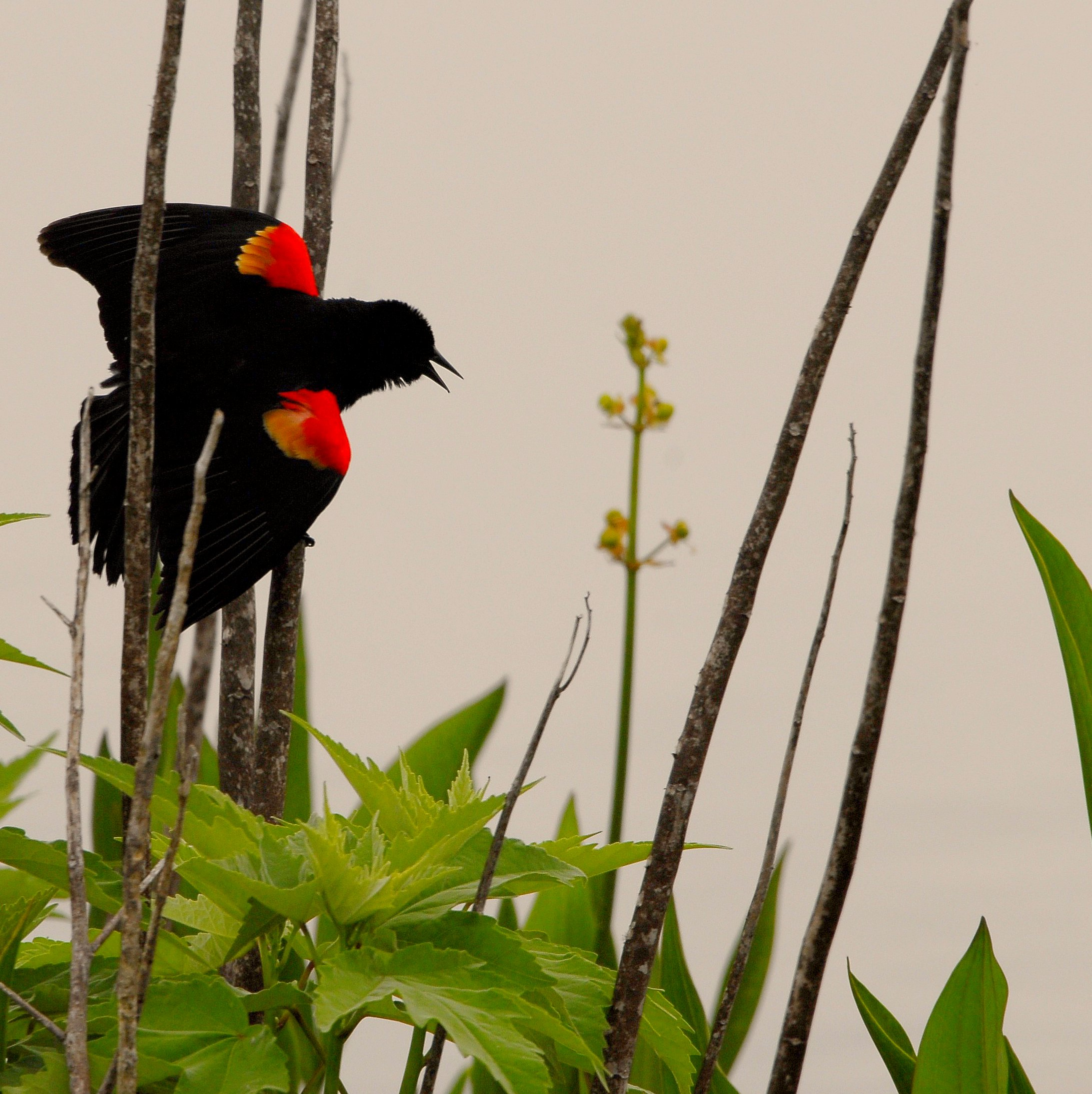 Red-winged Blackbird. Taken at Lake Woodruff National Wildlife Refuge near DeLand, Florida.